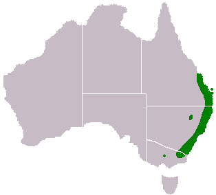 Acacia maidenii range map created with a blank map from the Commons, info from ILDIS LegumeWeb and the GIMP. More detail from ANBG [1]